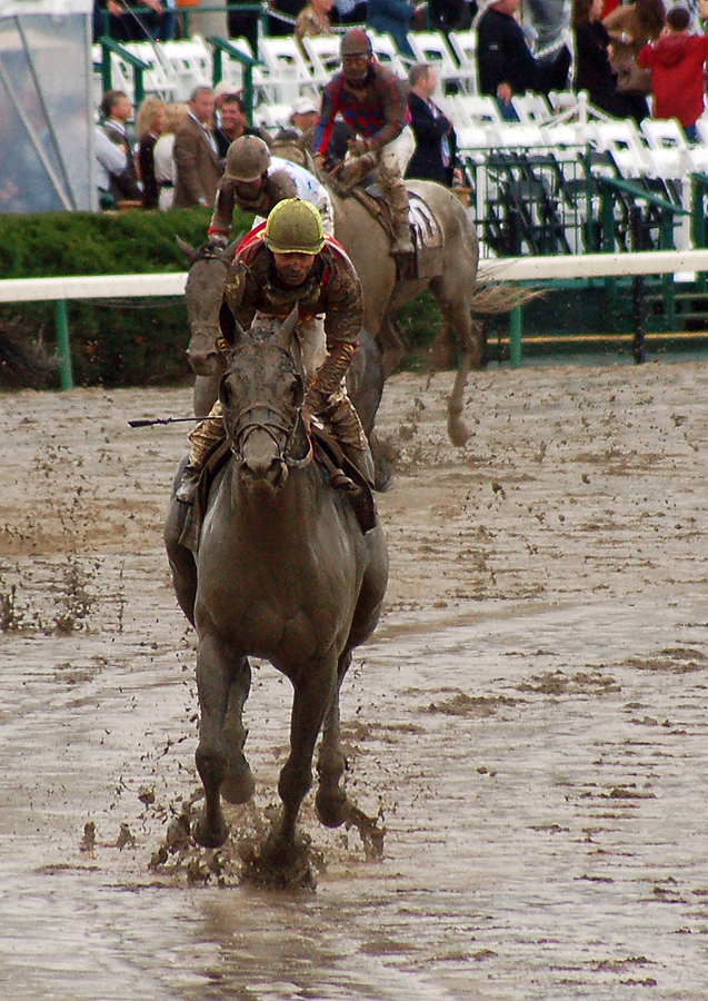 Midnight Lute after winning the 2007 Breeders' Cup Sprint at Monmouth Park.